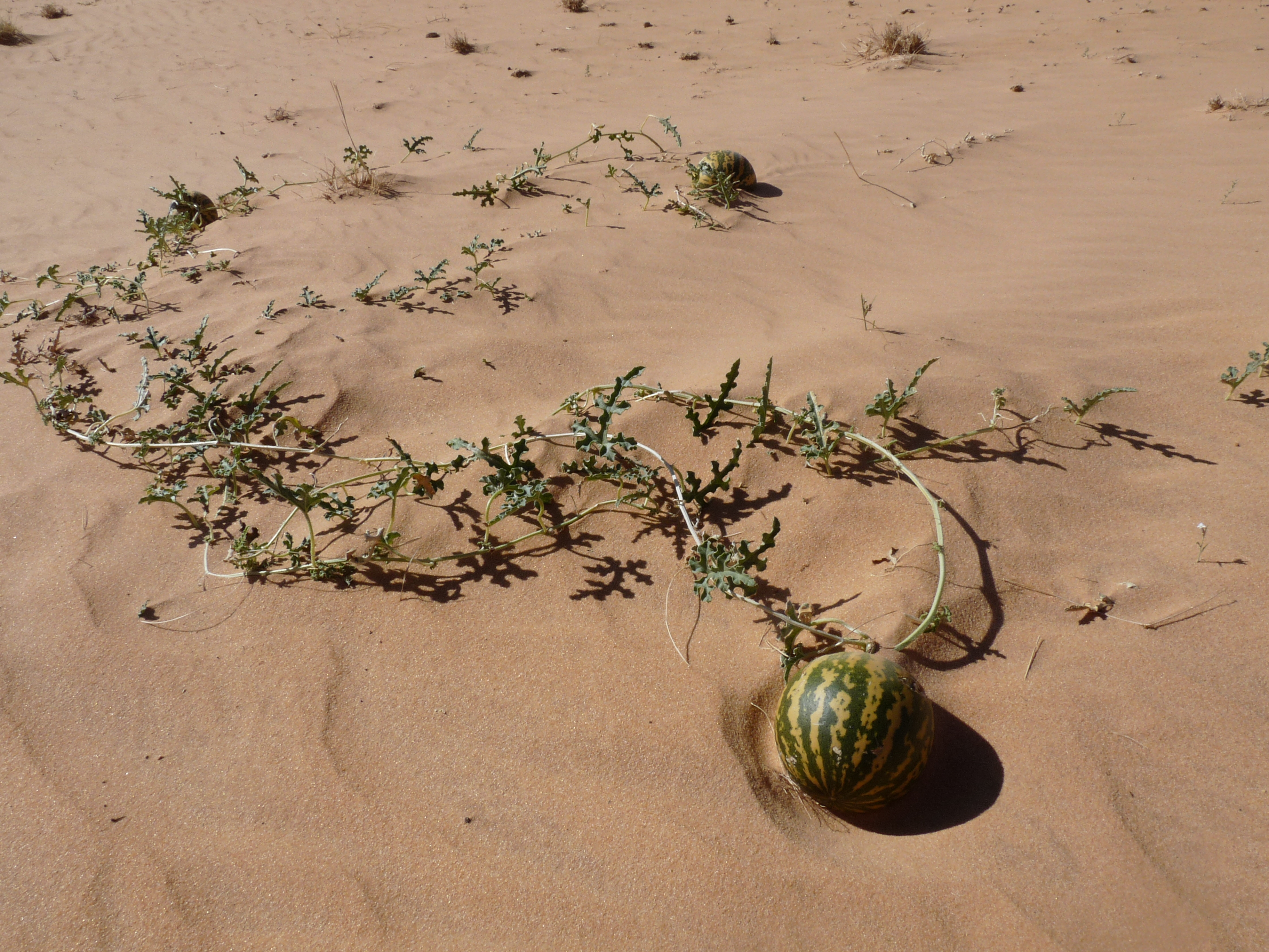 Colocynth in Adrar desert (Mauritania)